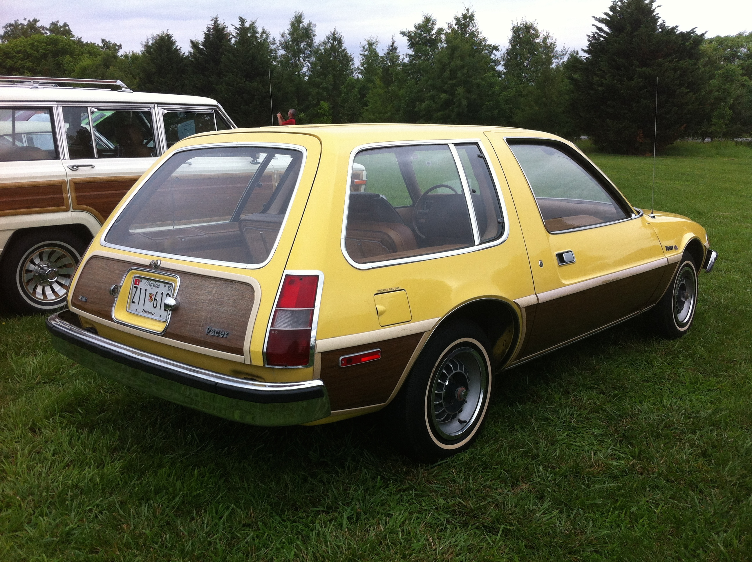 1977 AMC Pacer DL station wagon finished in "Sunshine Yellow" (paint code 6V) with woodgrain trim. Rear right side view. Picture taken at the 23rd East Coast AMC Day held at the Mason-Dixon Dragway located near Boonsboro, Maryland